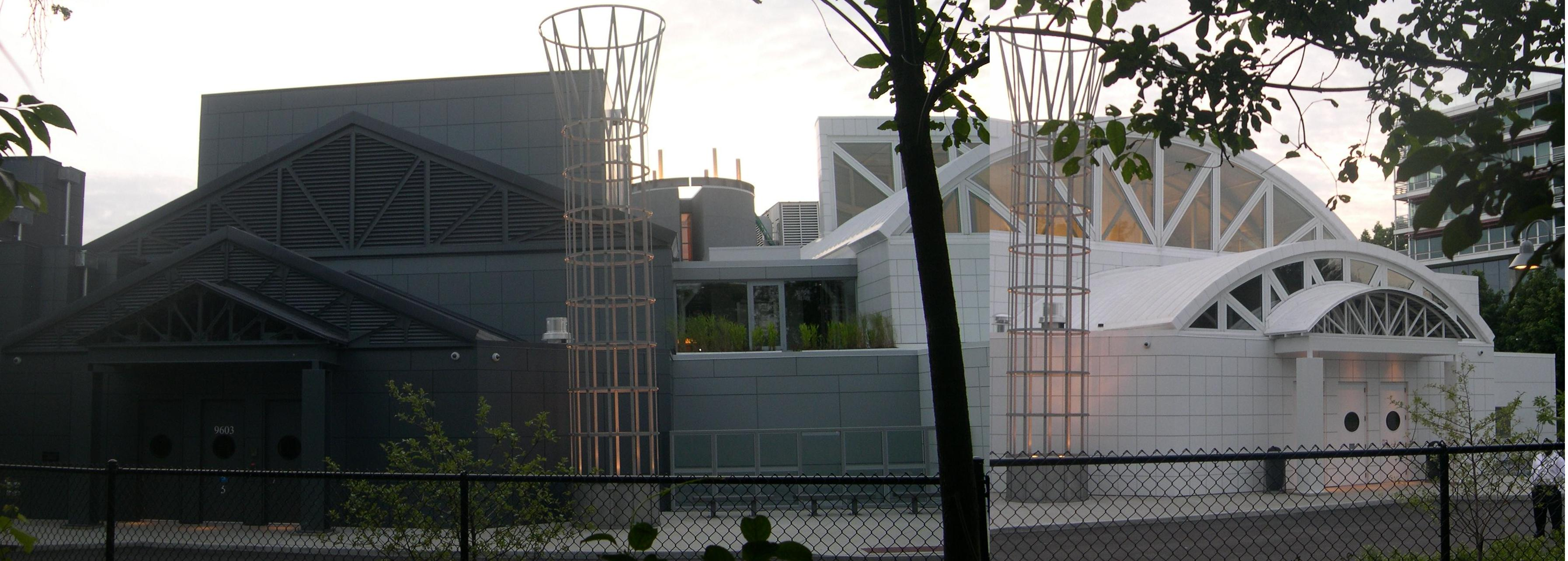 Front of Illinois Holocaust Museum and Education Center, Skokie. Building architect is Stanley Tigerman. The entrance is on the black part of the front and the exit on the white.